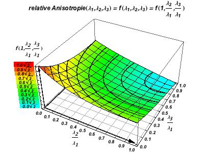 Relative Anisotropy as function of the Eigenvalues of a Diffusiontensor